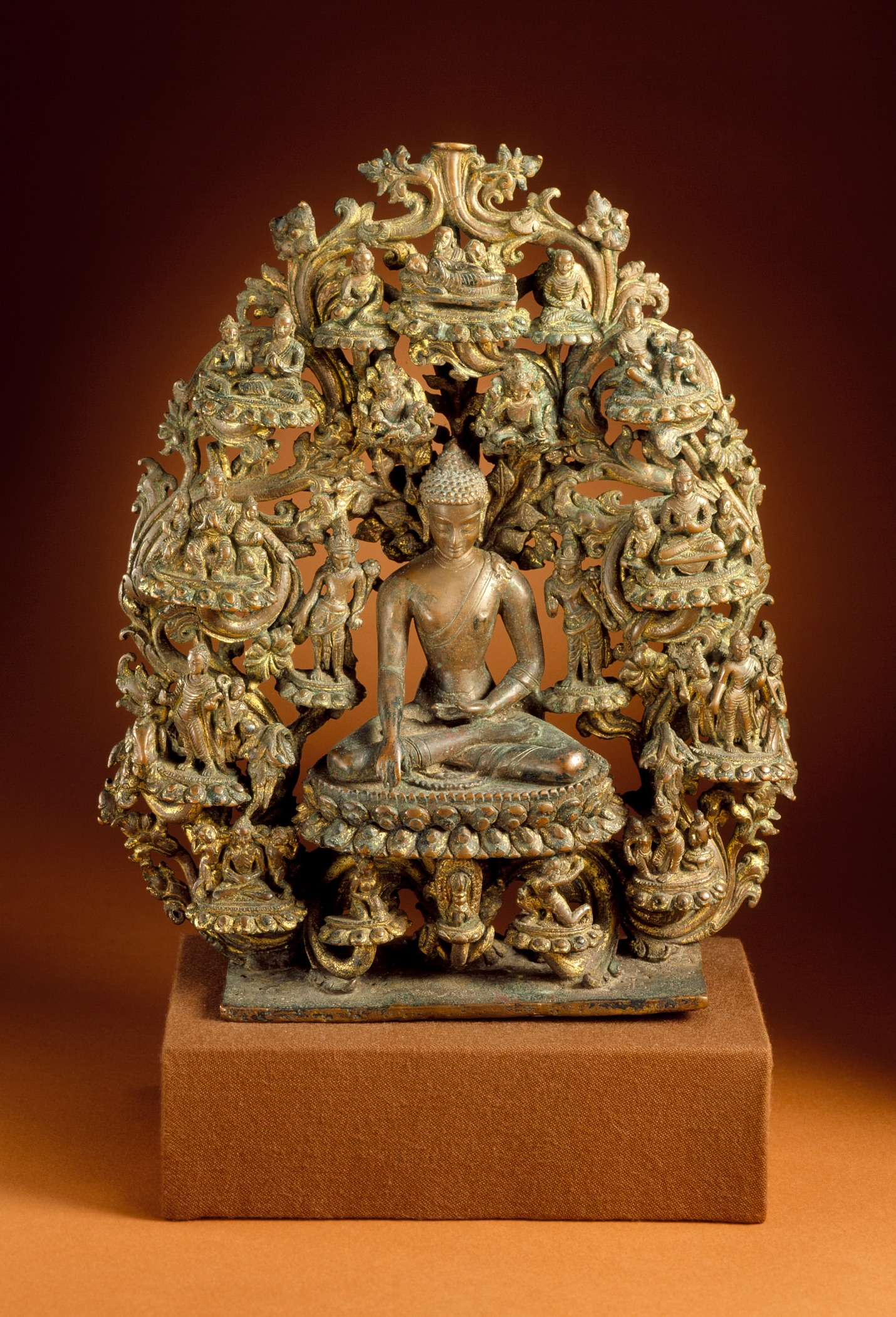 Nepal, 12th century Sculpture Unalloyed copper with traces of gilding 10 1/2 x 9 1/4 x 2 3/4 in. (26.67 x 23.49 x 6.98 cm) Gift of Mr. and Mrs. Michael Phillips (M.82.165.6) South and Southeast Asian Art